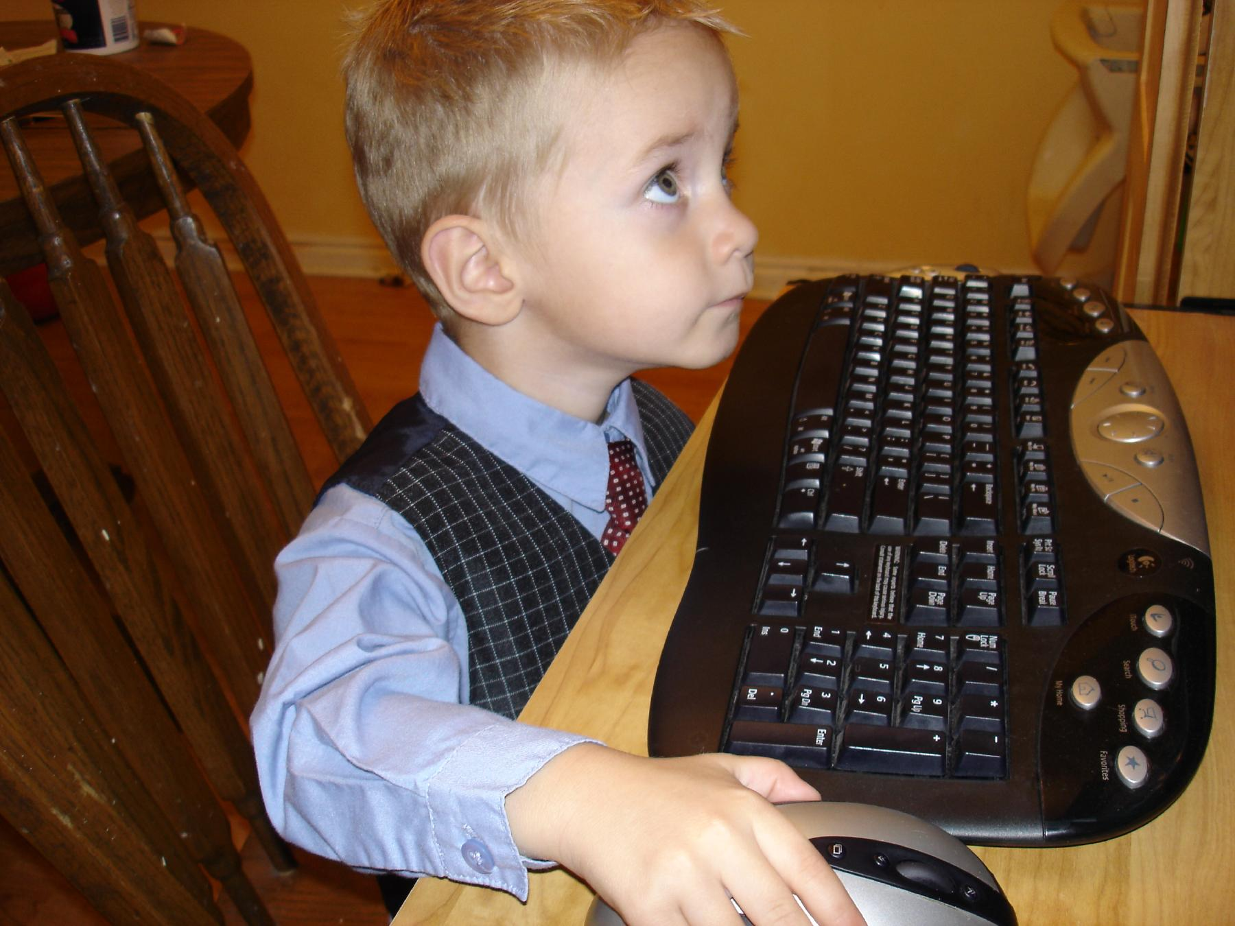 Braeden Hacking: Braeden is following in his Dad's keystrokes